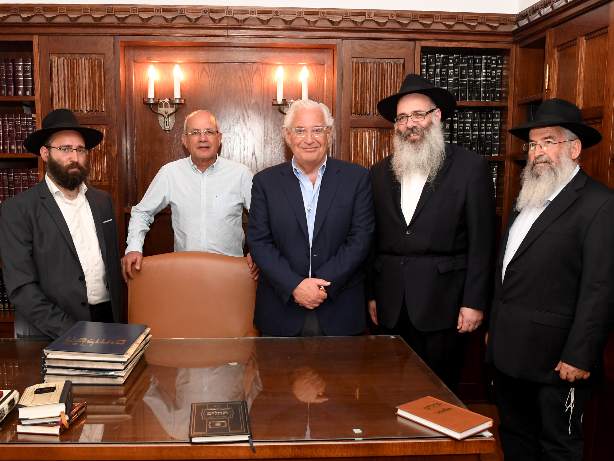 Ambassador and Tammy Friedman visit Kfar Chabad 03/20/2018